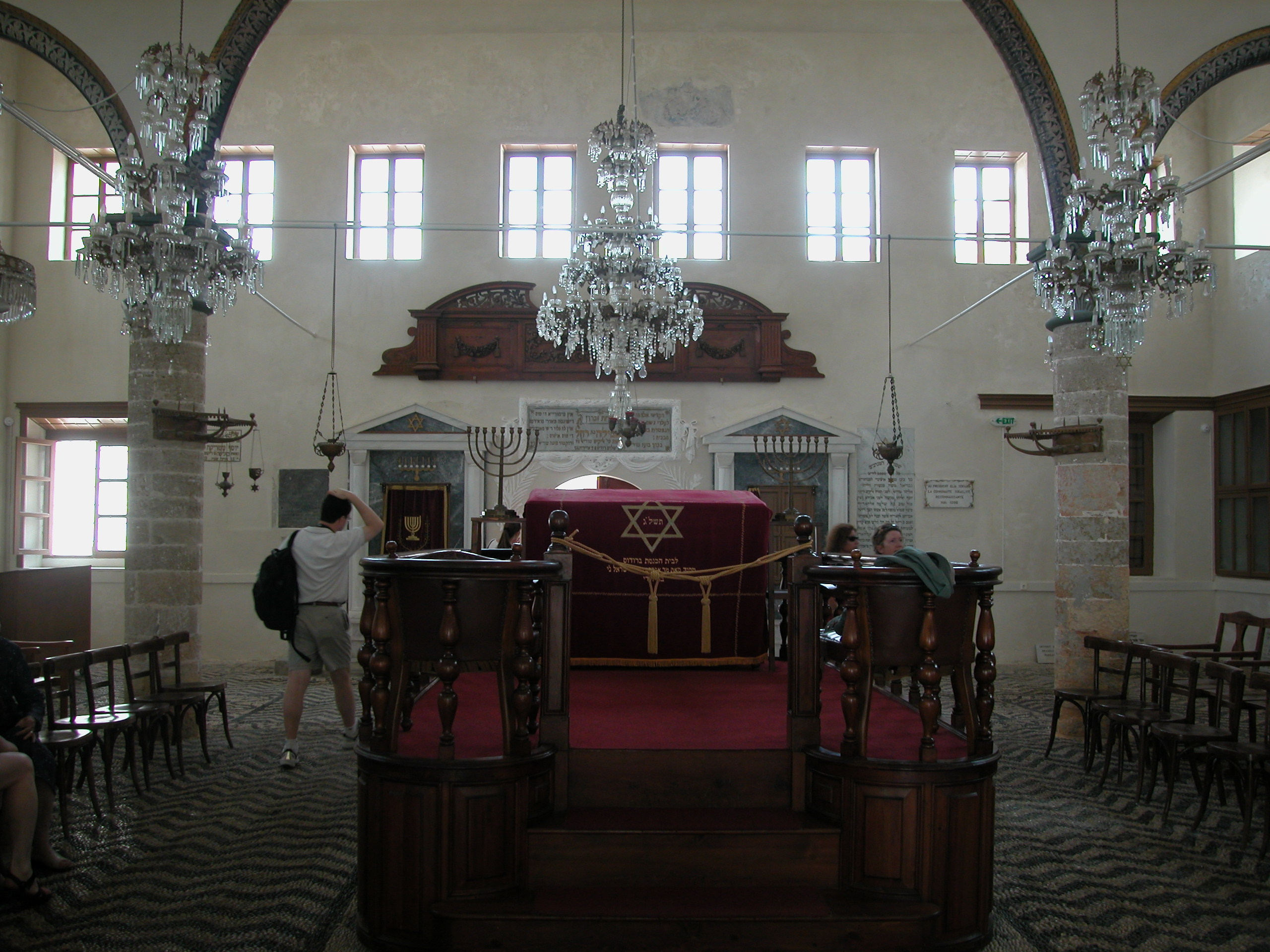 Interior of Jewish synagogue in Rhodes, Greece.